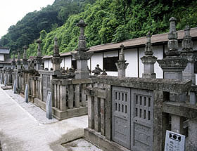 Grave of Ōtawara clan at Kōshin-ji Temple grounds. in Ōtawara, Tochigi, Japan.